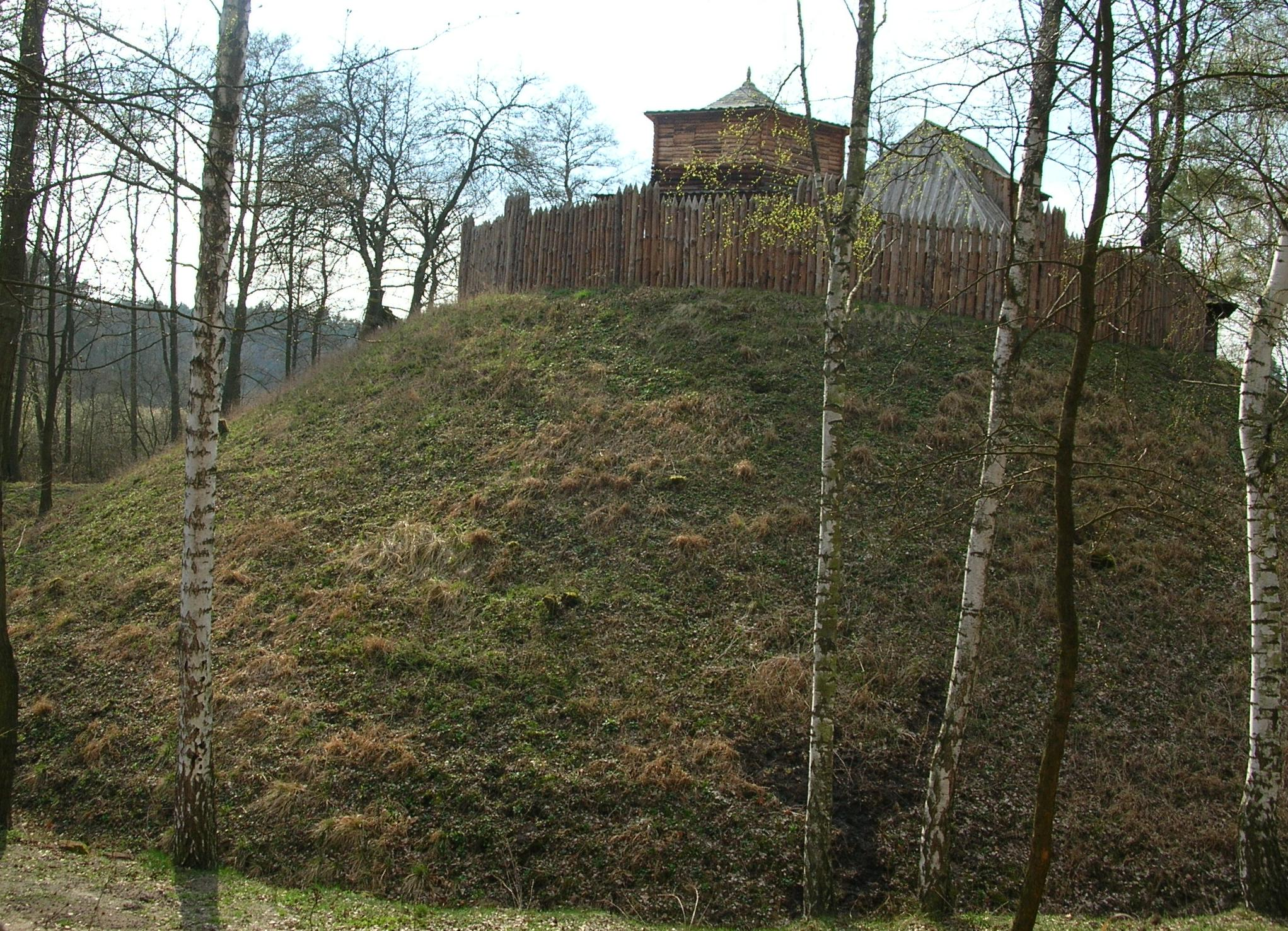 Archaeological open air museum in Kownaty Mrówki